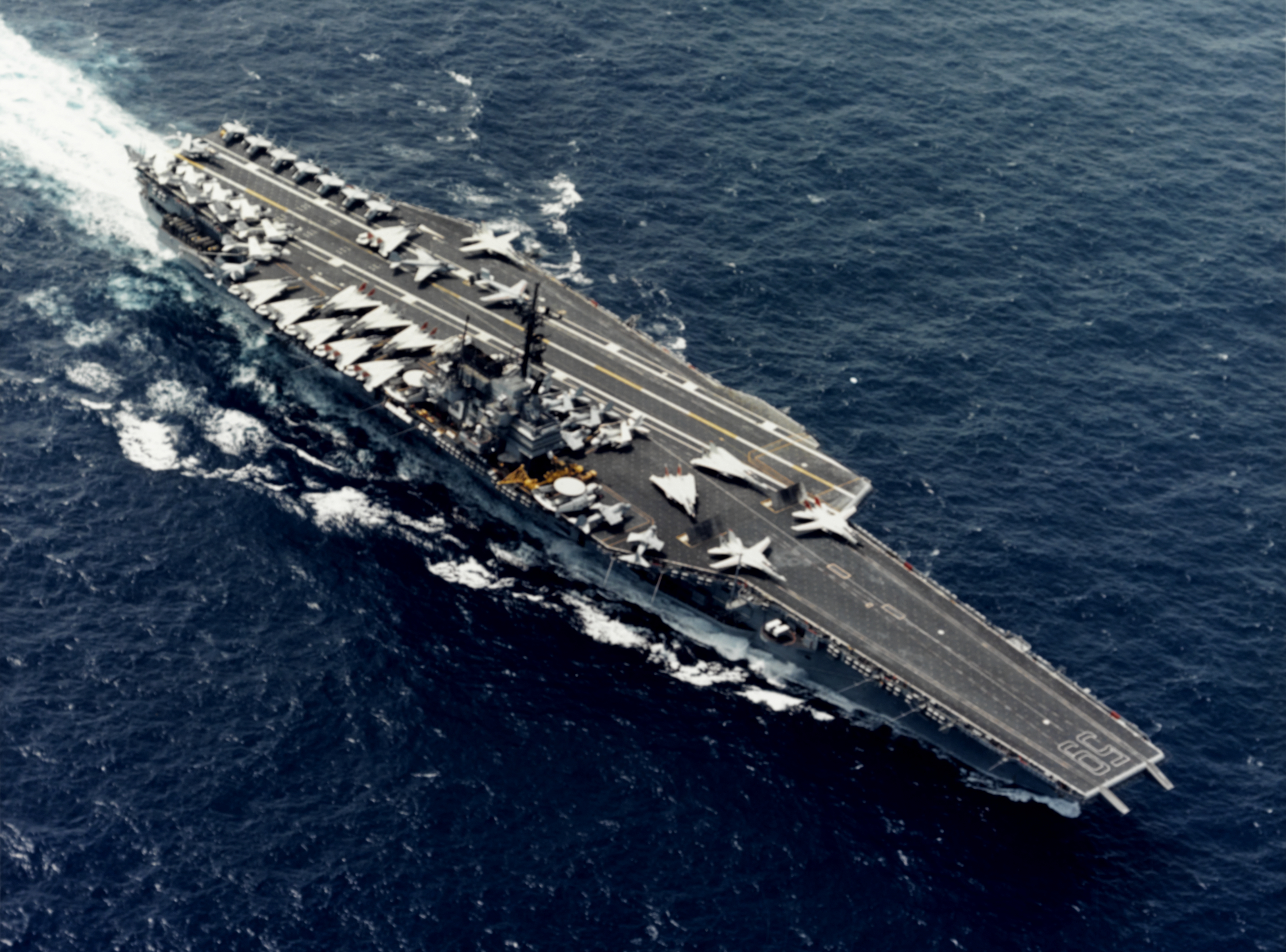 The U.S. Navy aircraft carrier USS Forrestal (CV-59) underway at sea in 1987. Various aircraft of Carrier Air Wing 6 (CVW-6) are visible on deck.